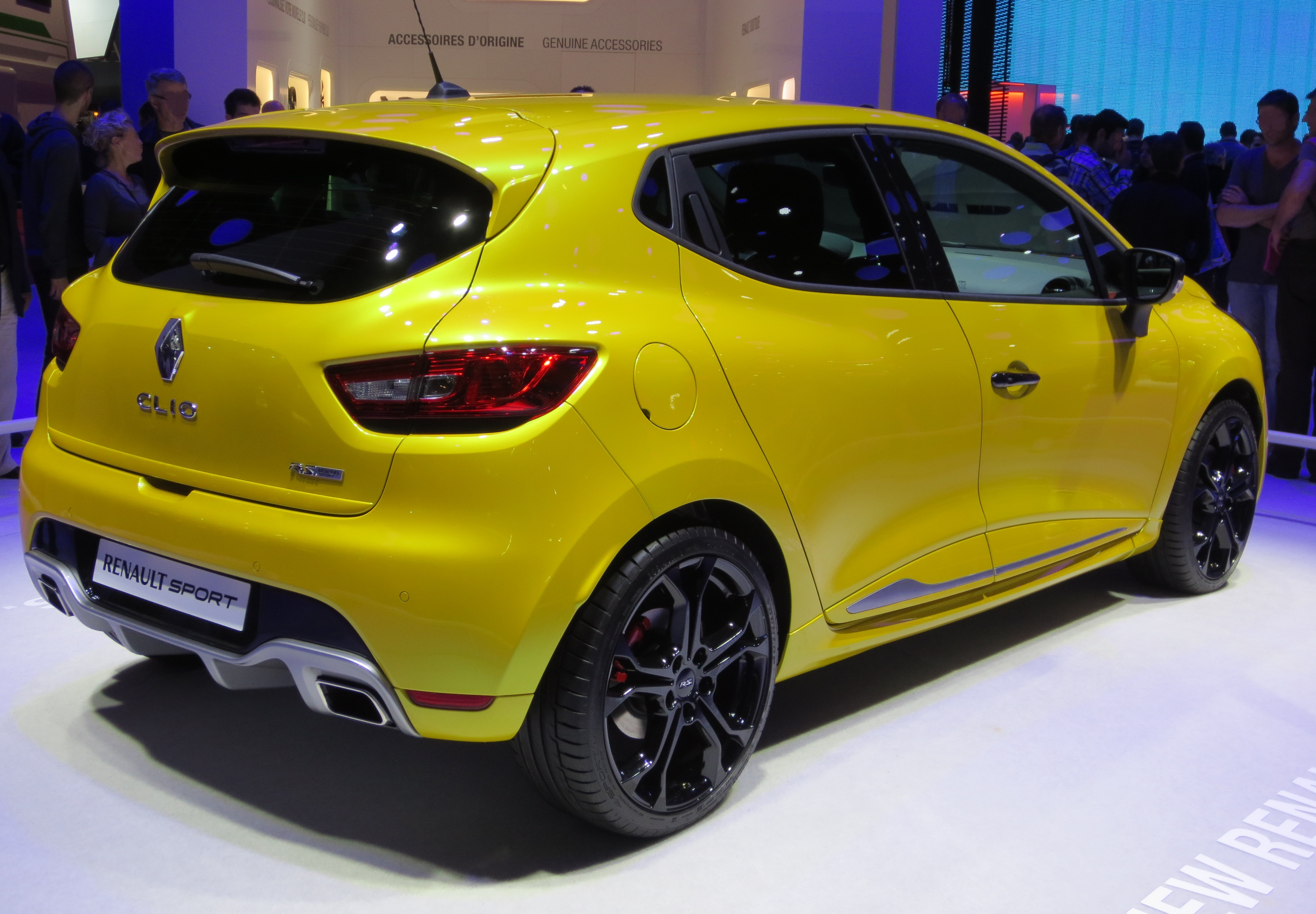 Subject: Renault Clio IV RS Author: Luc106 Date:September 29th, 2012 Event: Salon Automobile 2012 Place/Country: Parc des Expositions, Porte de Versailles, Paris I release all rights in the public domain.